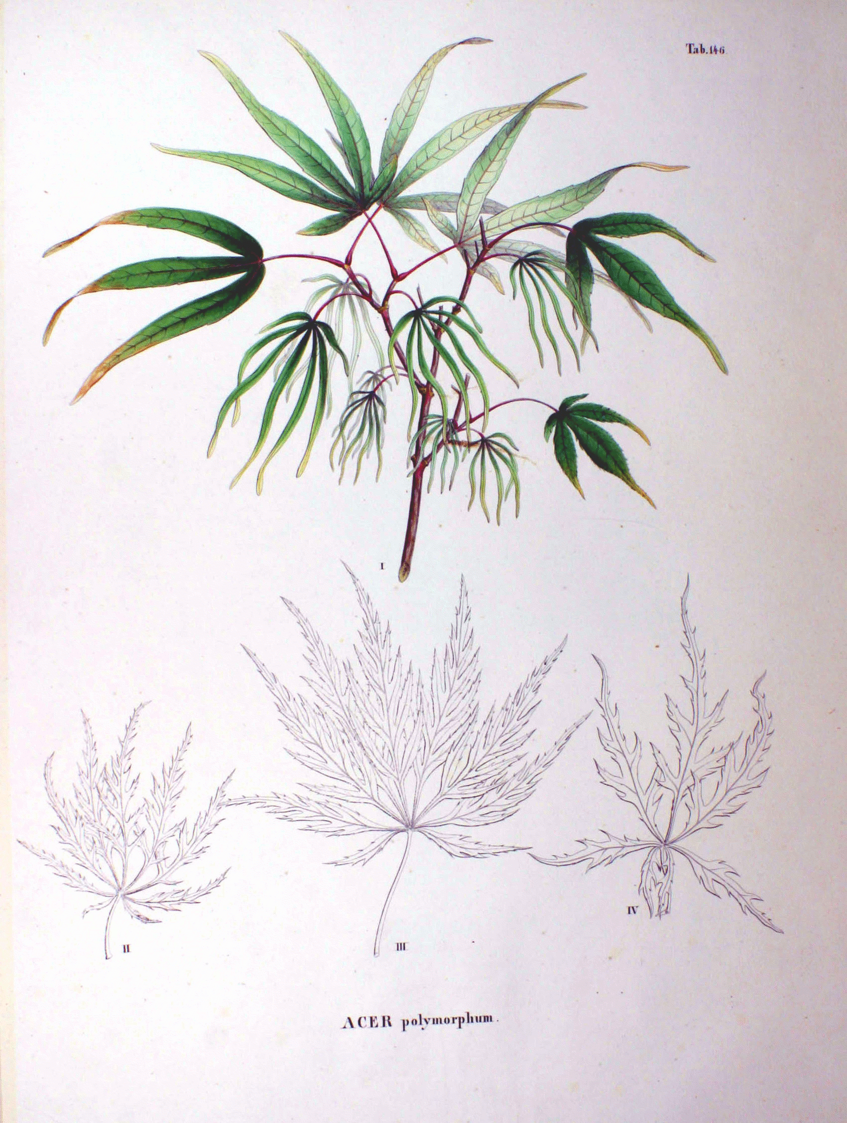 Plate from book